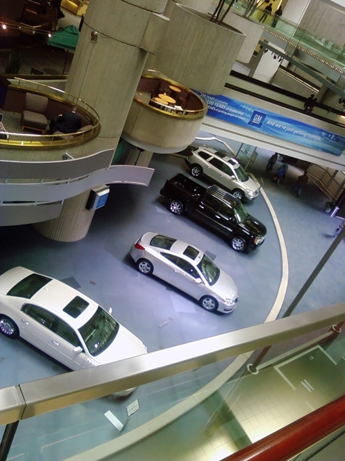 GM World in the Renaissance Center in Detroit, showing some GM vehicles